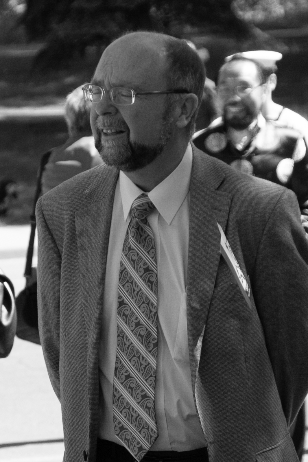 City of Calgary alderman Bob Hawkesworth is seen here on June 14, 2010 attending a parade and cultural celebration of Chinatown's 100th anniversary of the current location of Chinatown in Calgary. Alberta MLA Wayne Cao's is camera-right behind Hawkesworth. This image was cropped and de-colourized, to better focus on the main subject.